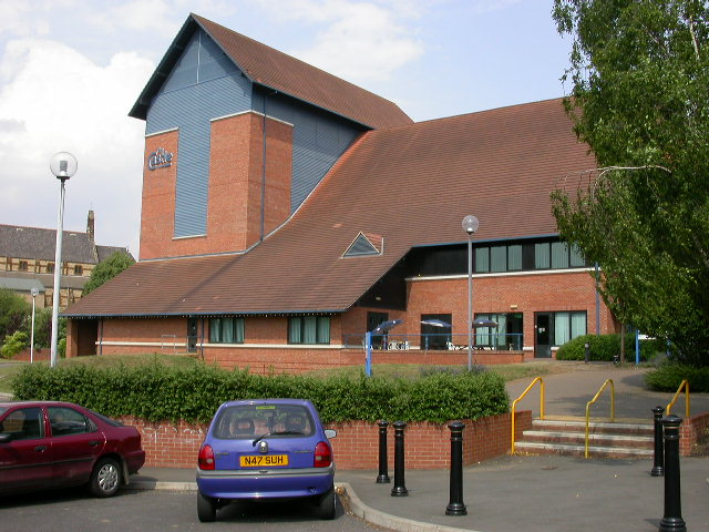 The Castle. Built in the 1990's. Entertaintments include plays, comedy evenings, films, music, dance, pantomime, art exhibitions. Used as the starting and finishing point for the annual International Waendel Walks Weekend.